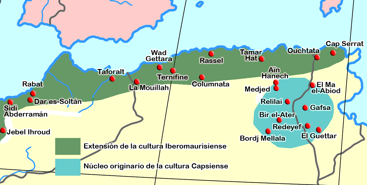 The Ibero-Maurisian Culture, in the Maghreb and Sahara of North Africa